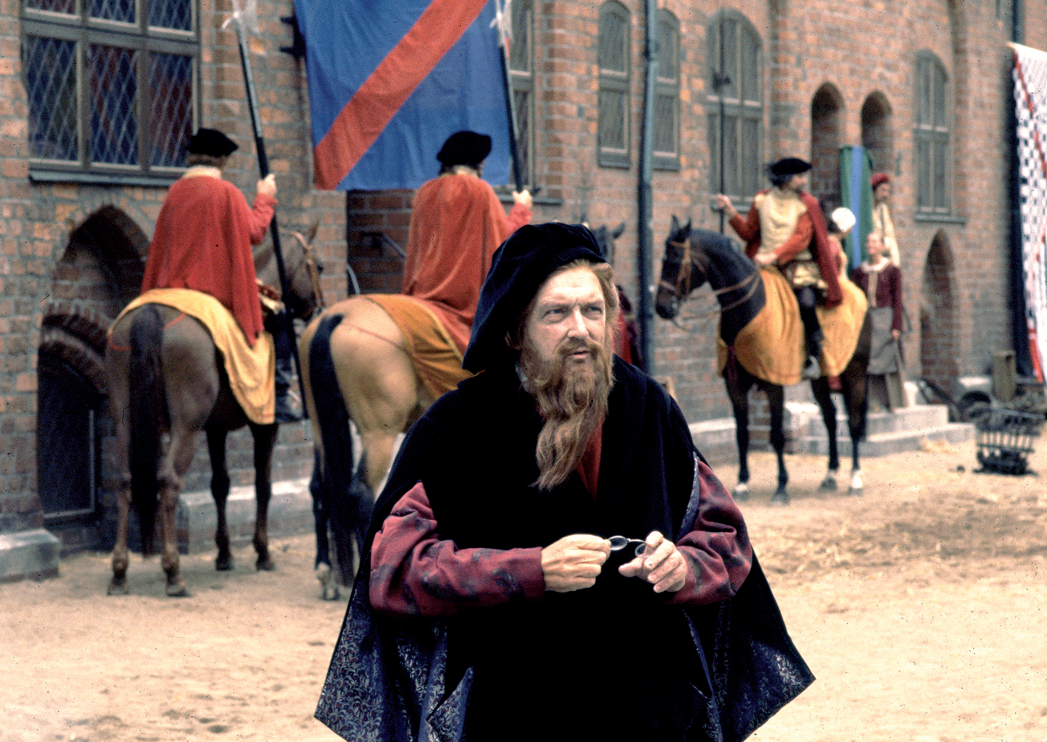 The Swedish actor Lasse Holmqvist as mayor Jörgen Kock in Malmö in 1986.